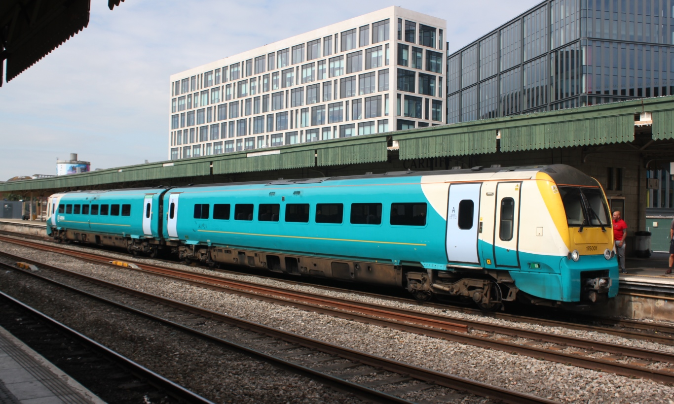 Arriva are handing the Welsh railway franchise to Keolis/Amey in six weeks time so have started to remove their logos from the trains they operate. This is 175001 at Cardiff Central.